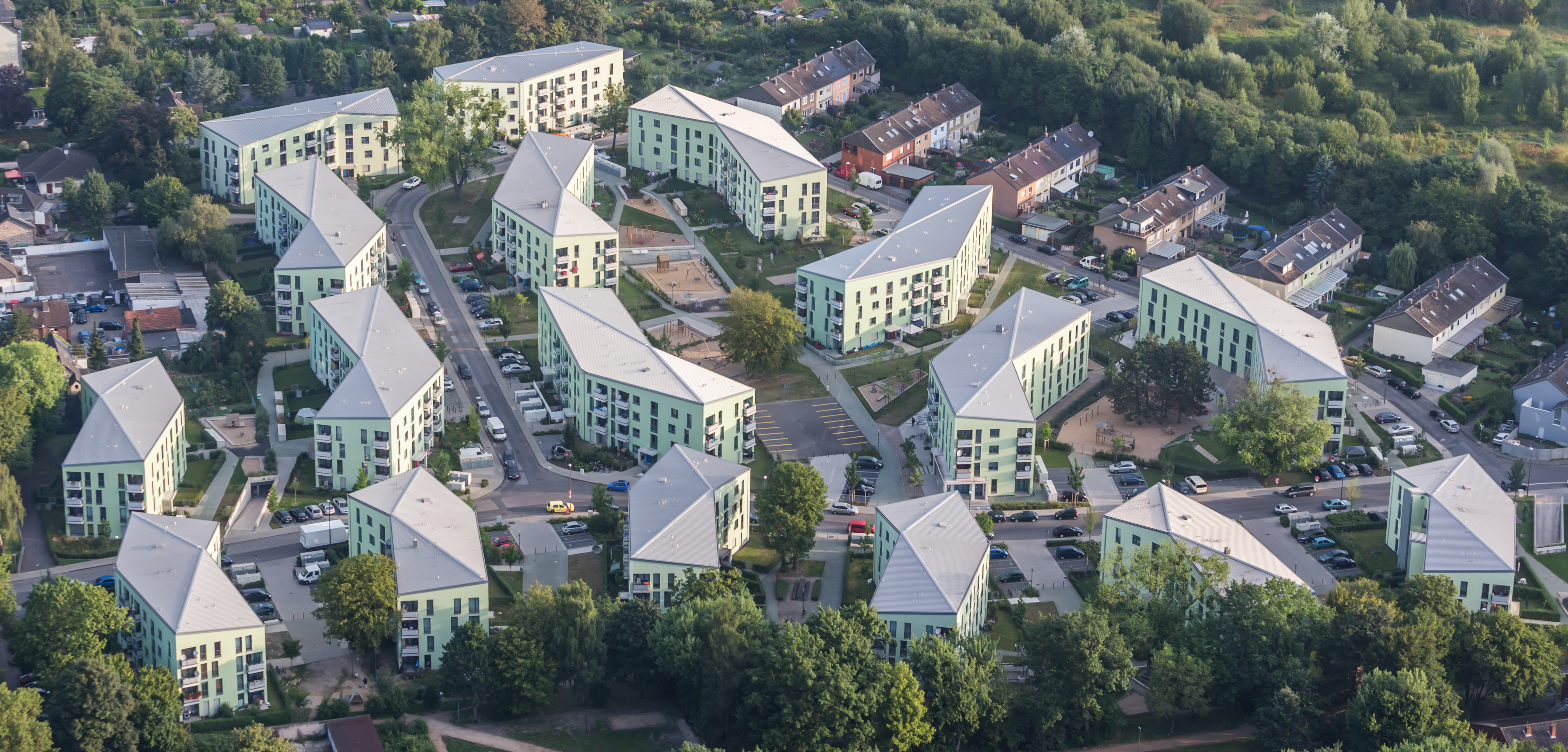 Hot air balloon trip across Cologne